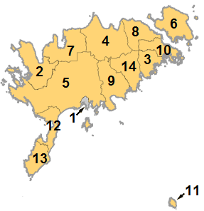 Numbered map showing municipalities of Saare County (Estonia) as of 2005. This image was created by Senzeichi.